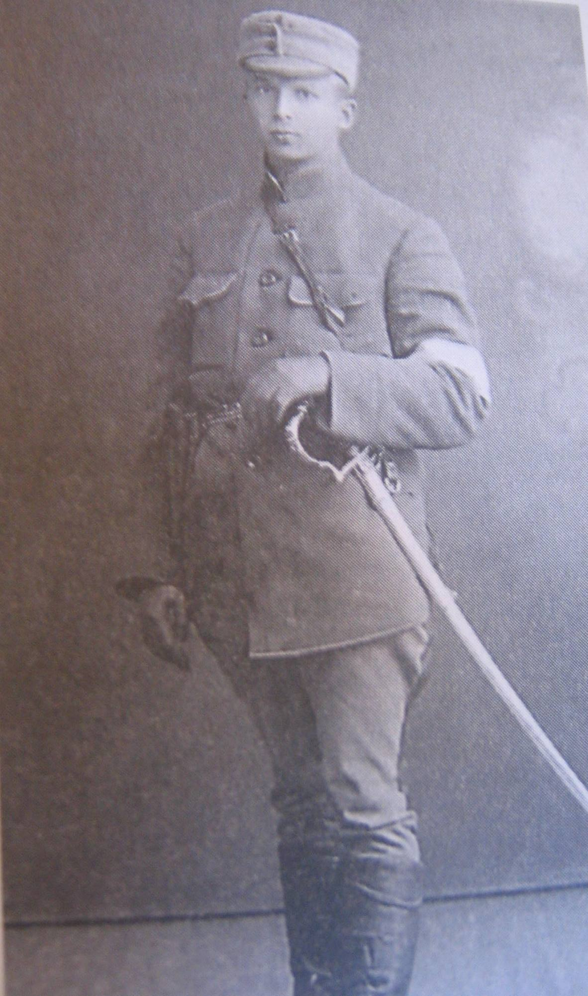 Finnish white guard Sulo Nykänen